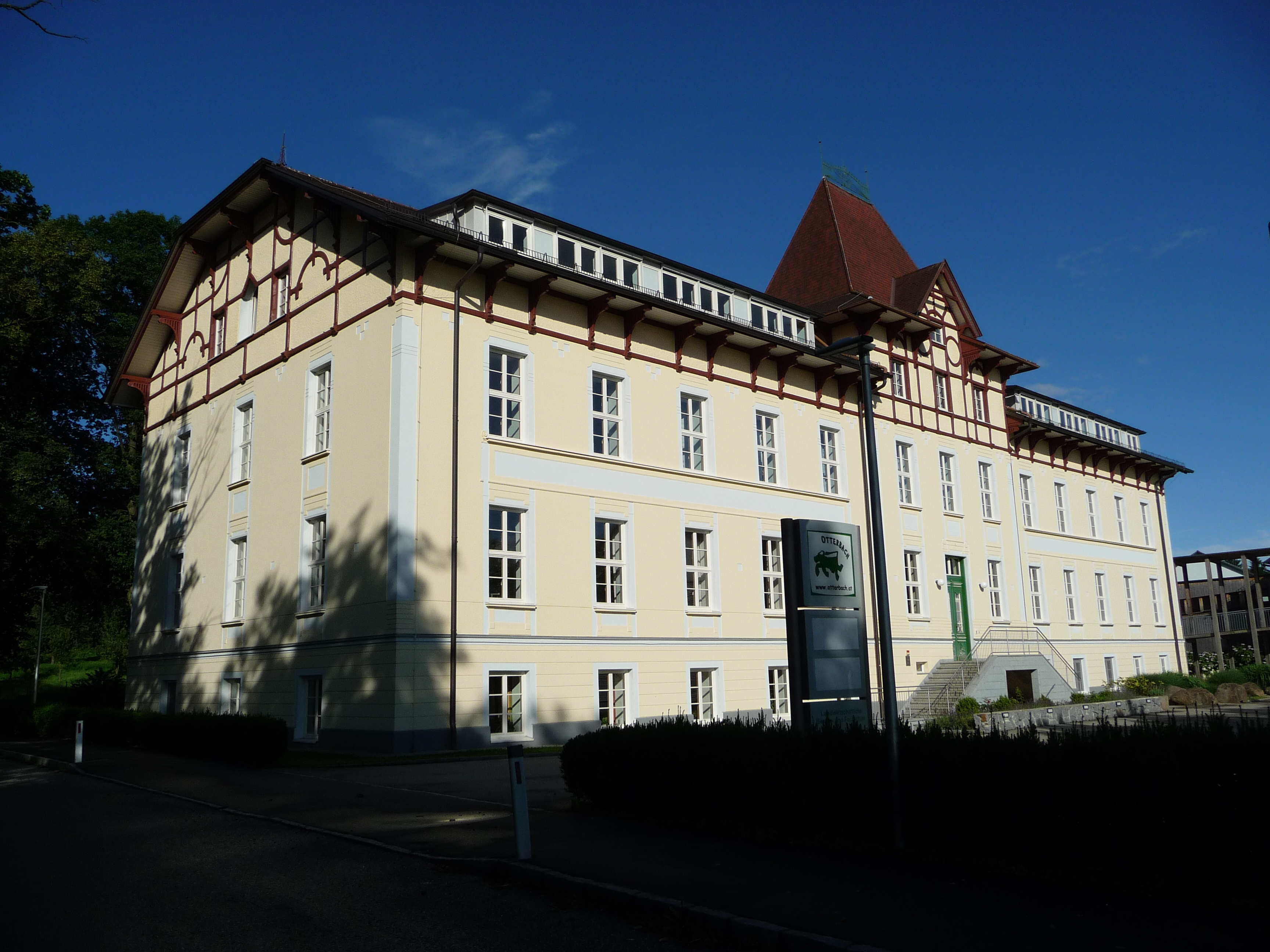 View of Otterbach agricultural school from west, Upper Austria.